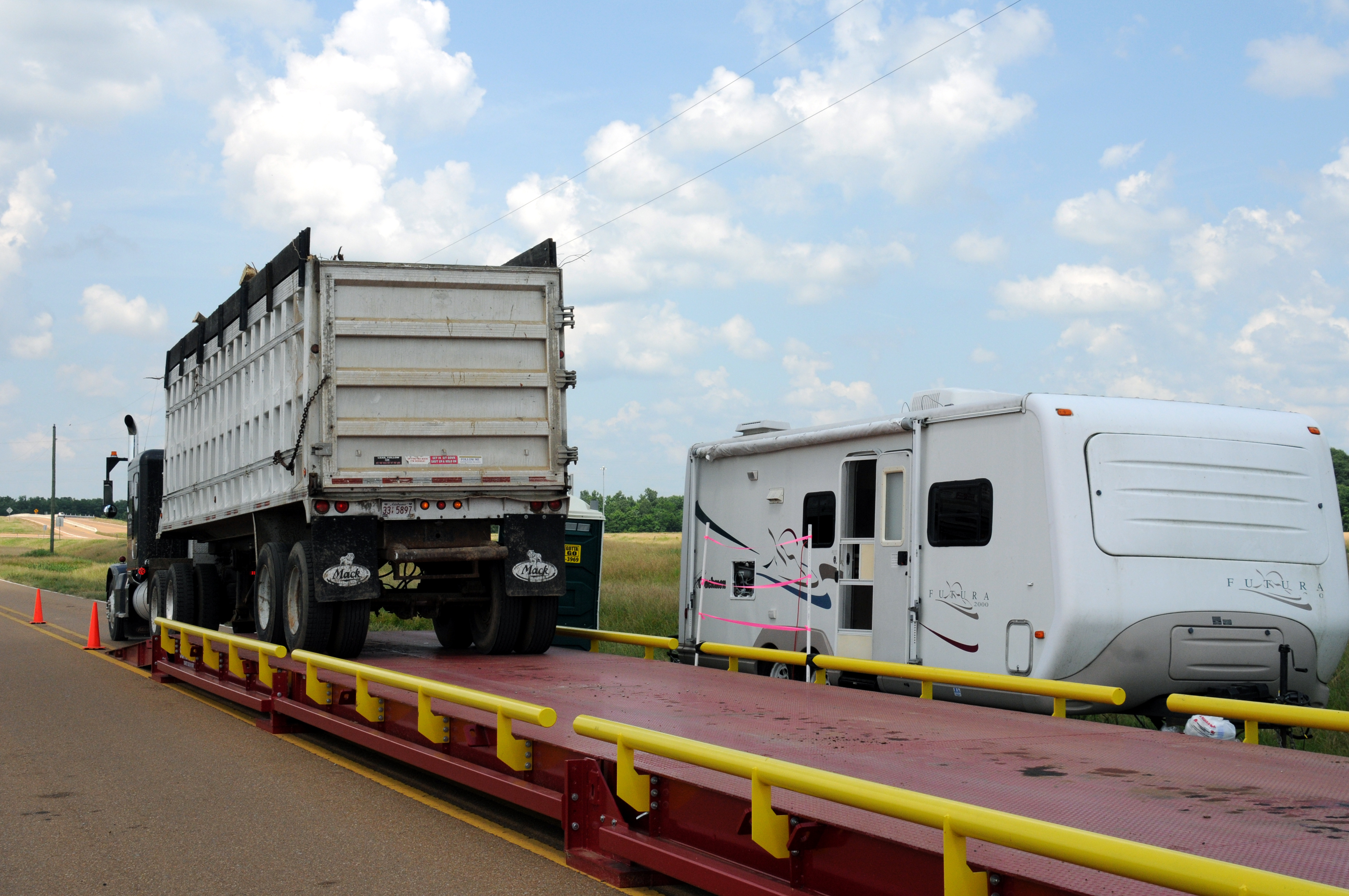 Yazoo City, MS, May 22, 2010 -- A contractor debris truck moves off the scales past the US Army Corps of Engineers weigh in station and toward the dump area. FEMA has mission assigned the Corps to facilitate April 24 tornado debris removal. George Armstrong/FEMA